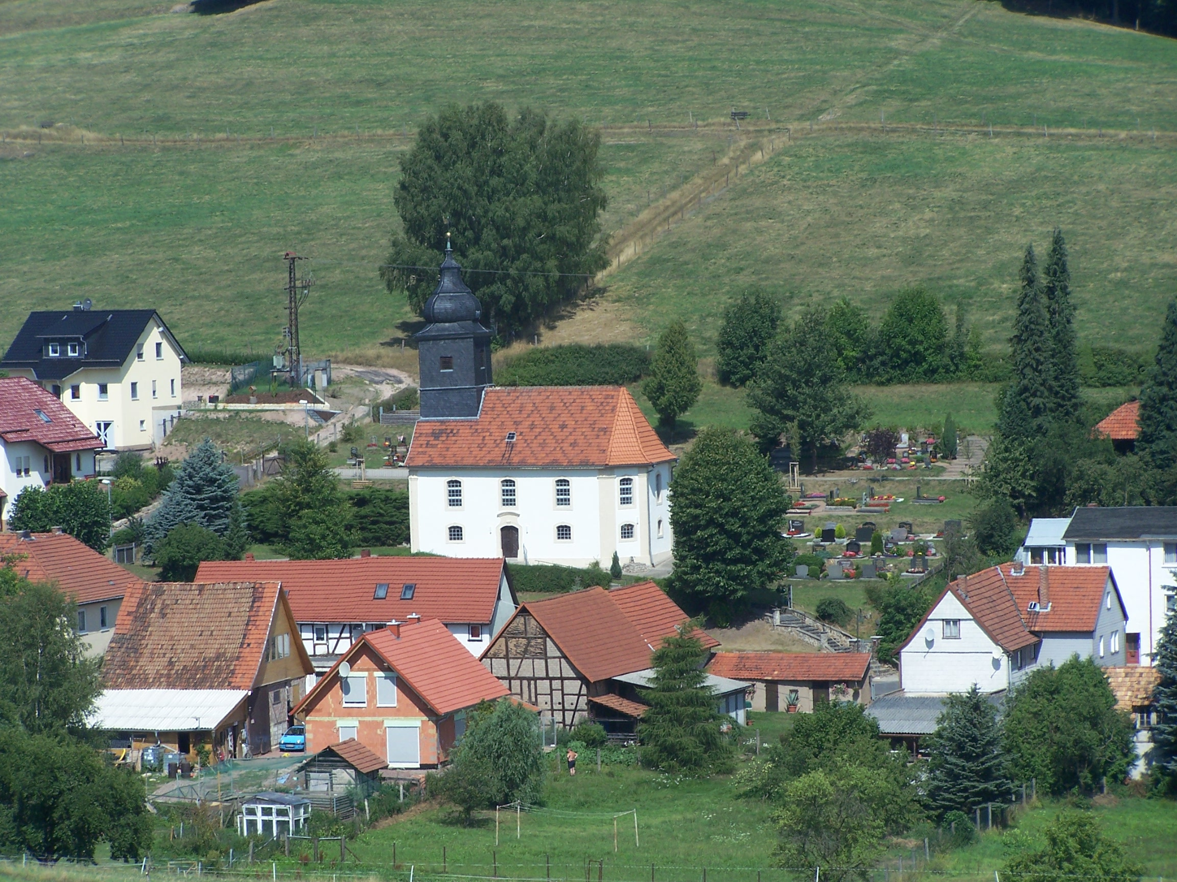 Kittelsthal - viewpoint: Hörselberg hills in summer dust.